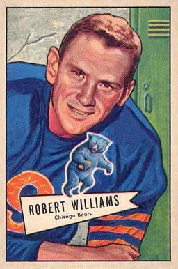 American football player Bob Williams (quarterback) on a 1952 Bowman Large card.